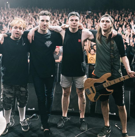 Blood Youth after opening for Prophets of Rage.